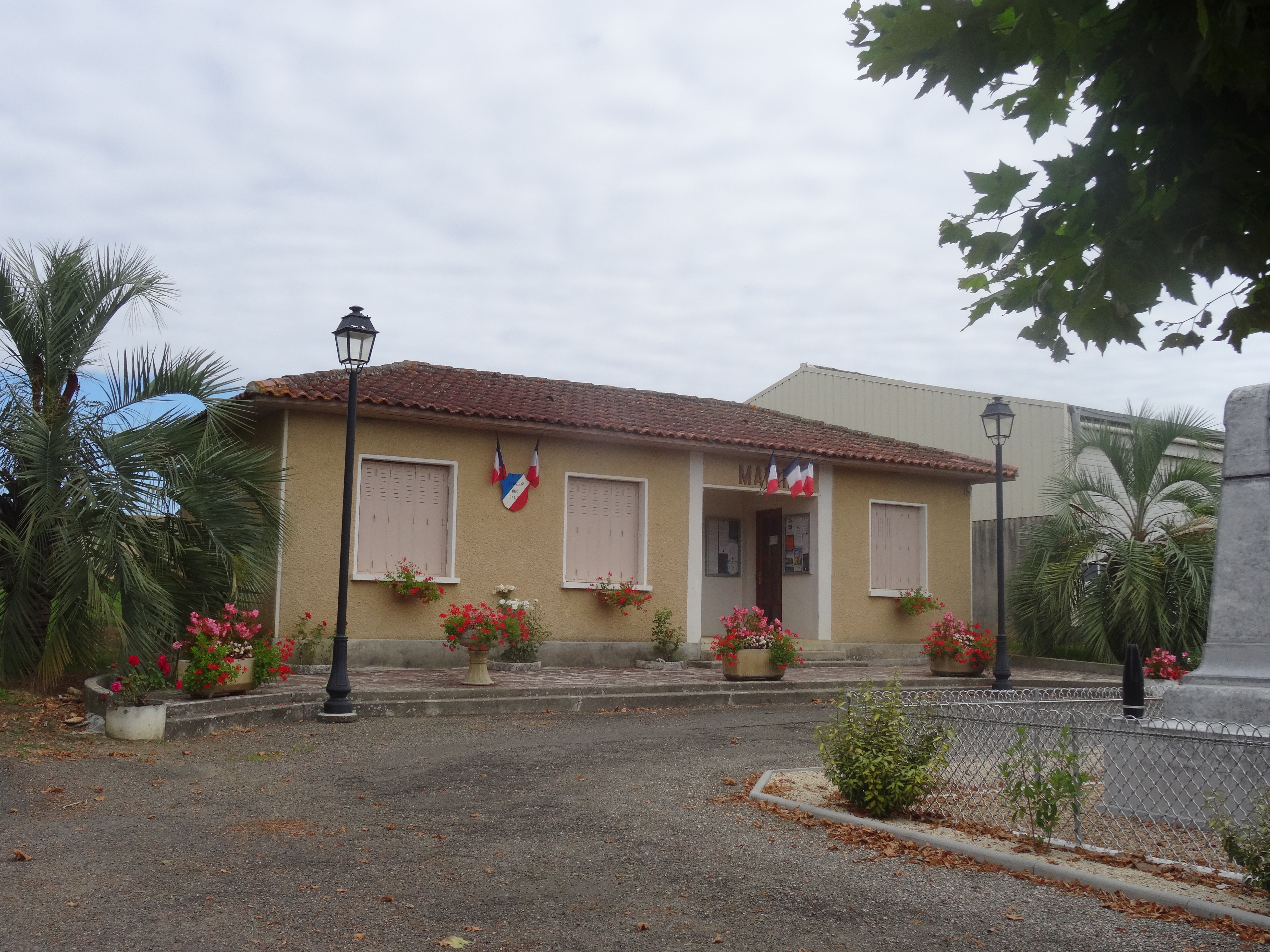 Vue de la mairie de Sorbets (32)